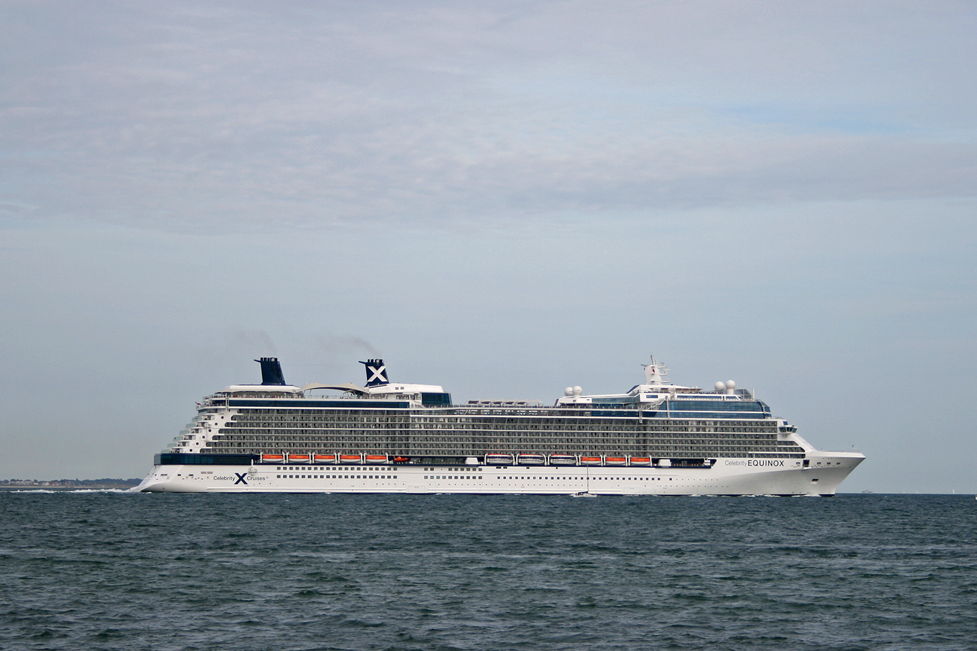 122,000 tons cruise ship Celebrity Equinox departing Southampton on its maiden voyage 31st July 2009, bound for Stavanger. Image prepared by me George Hutchinson using a photograph supplied by Brian Burnell. The photograph should be attributed to Brian Burnell. Wikipedia editors are reminded that the copyright remains with the photographer, and that the terms of the Creative Commons Attribution-ShareAlike 3.0 Unported Licence that allow editors to reuse this image apply to Wikipedia editors also, as they do to other reusers of this image. Breaches of the licence terms are not only unlawful, but are also antisocial, in that breaches discourage photographers from making their images freely available to everyone without payment. Non-Wikipedia users are requested to advise Brian Burnell of its use other than on Wikipedia.